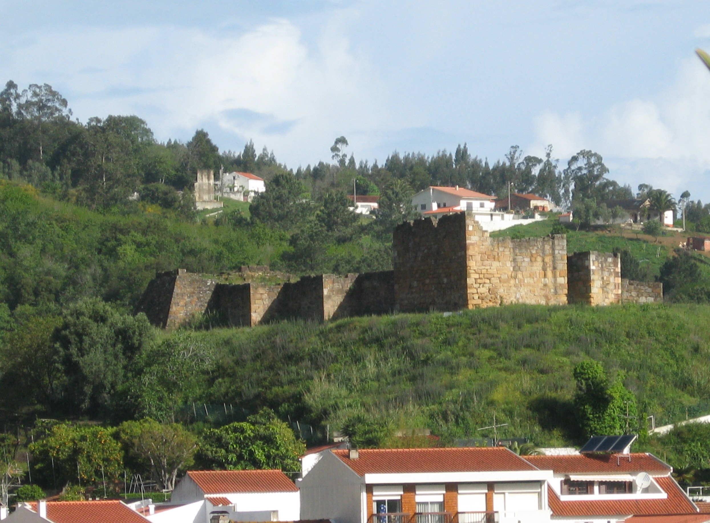 Mosteiro de Alcobaça, Portugal,ruins of the Castello, origin Moors or Wes-Goths